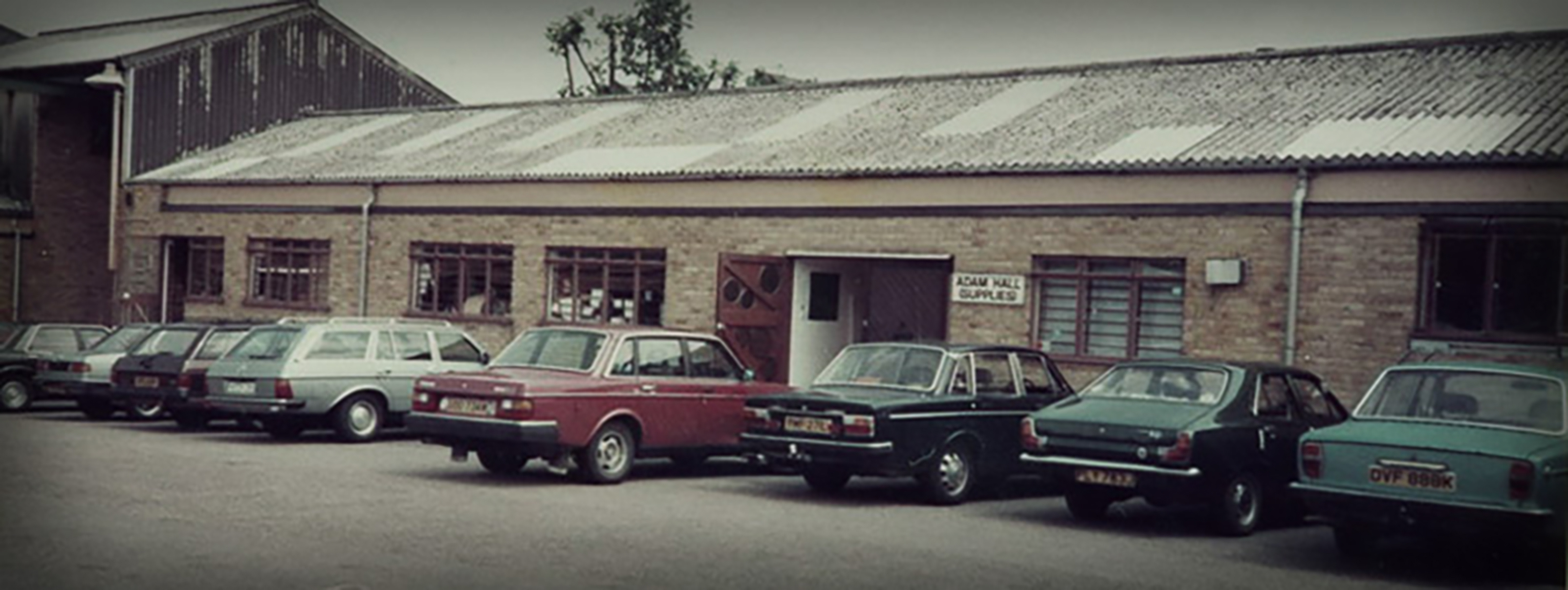 Adam Hall Garage UK 1975